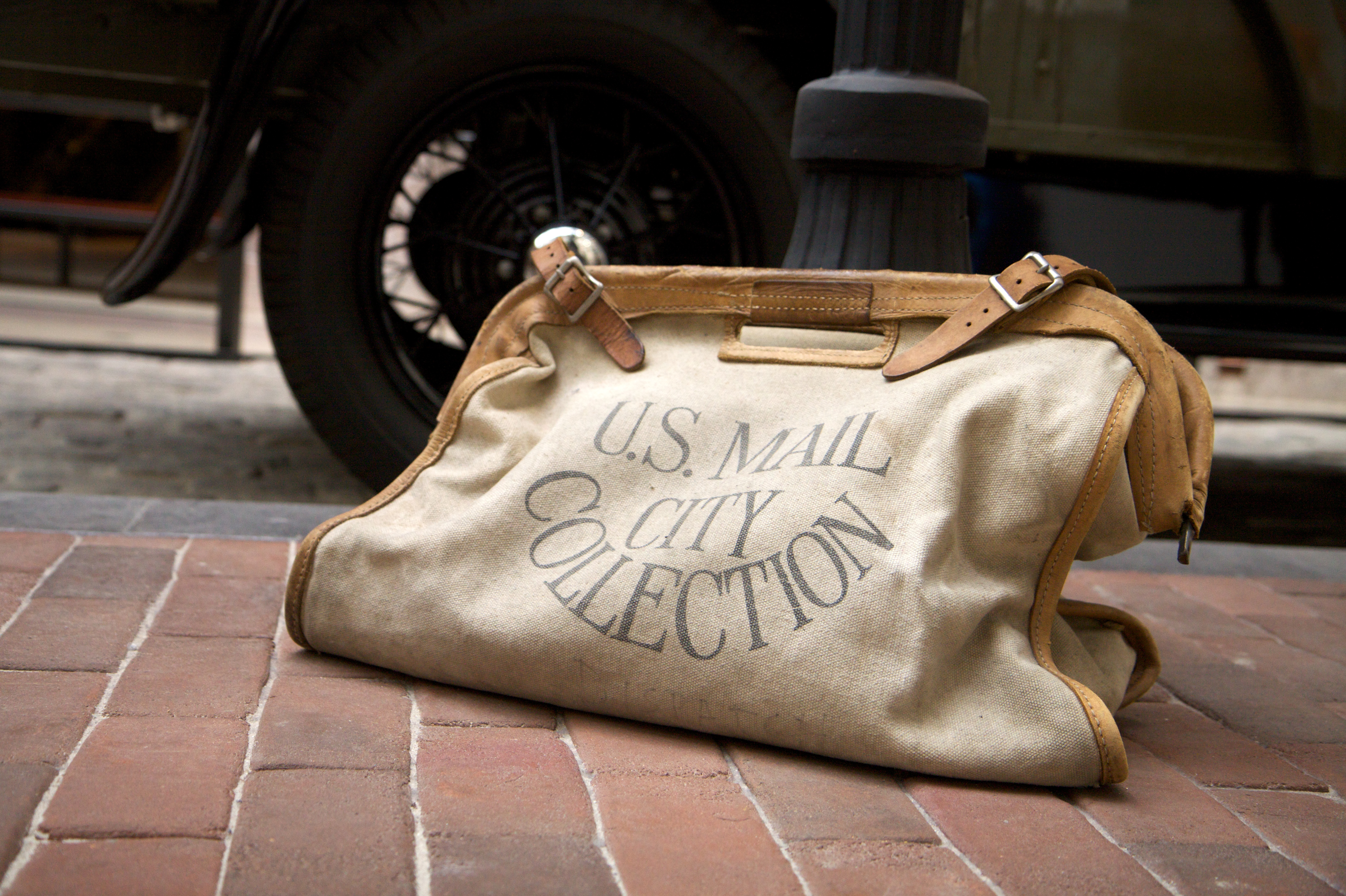 Vintage "U.S. Mail City Collection" mail bag at the Smithsonian National Postal Museum in Washington, D.C.